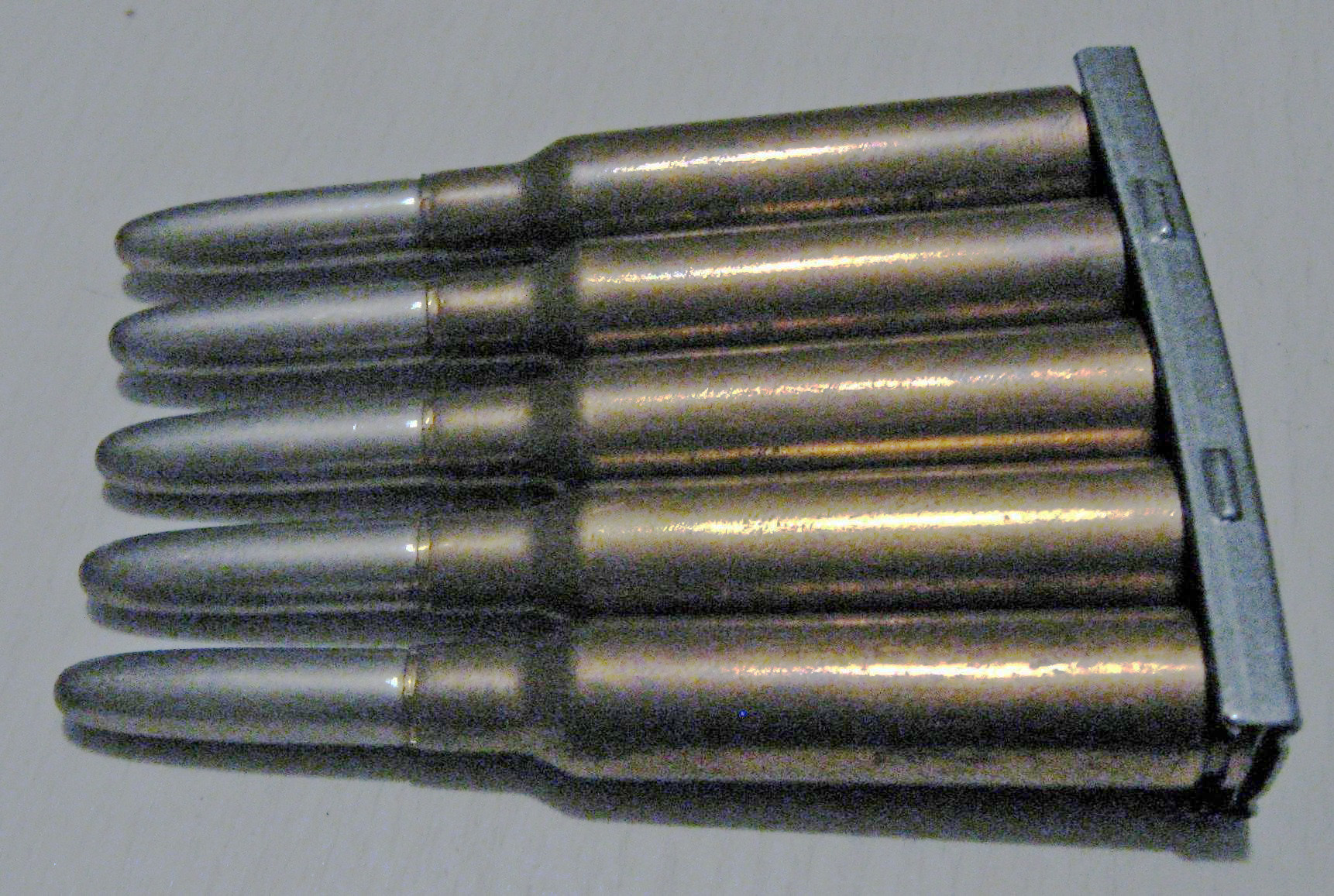 Swedish Mauser stripper clip loaded with Swedish skarp patron m/94 projektil m/94 (live cartridge m/94 projectile m/94) service ammunition with a 10.1 grams (156 gr) long round-nosed m/94 (B-projectile) bullet used up to the early phase of World War II and Norwegian occupation by German in 1940.